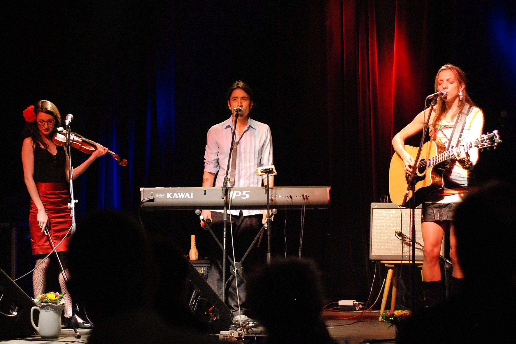 Melanie Dekker